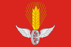 Flag of Uzhur, Krasnoyarsk Territory, Russia